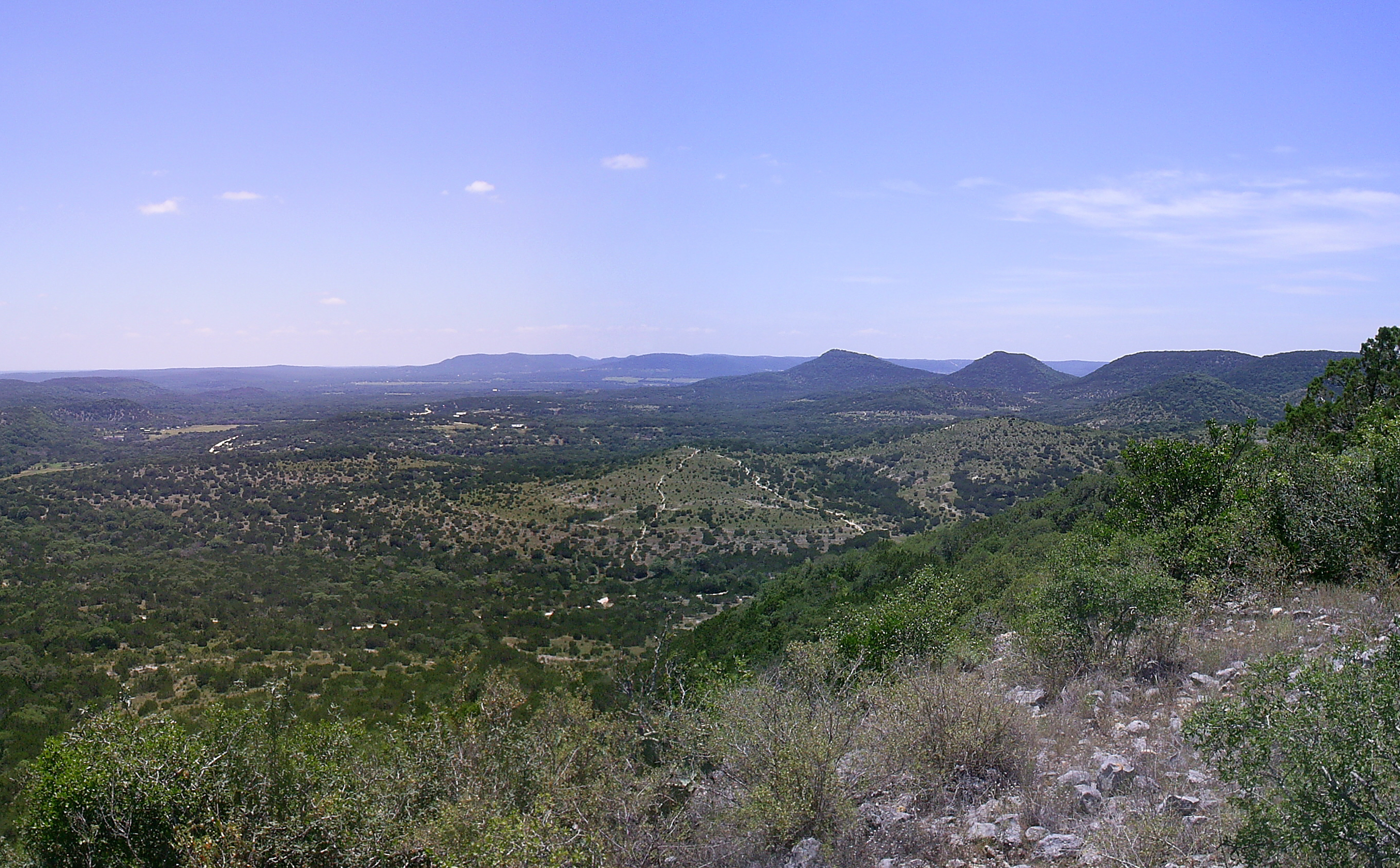 View from Hill Country State Natural Area in Bandera County